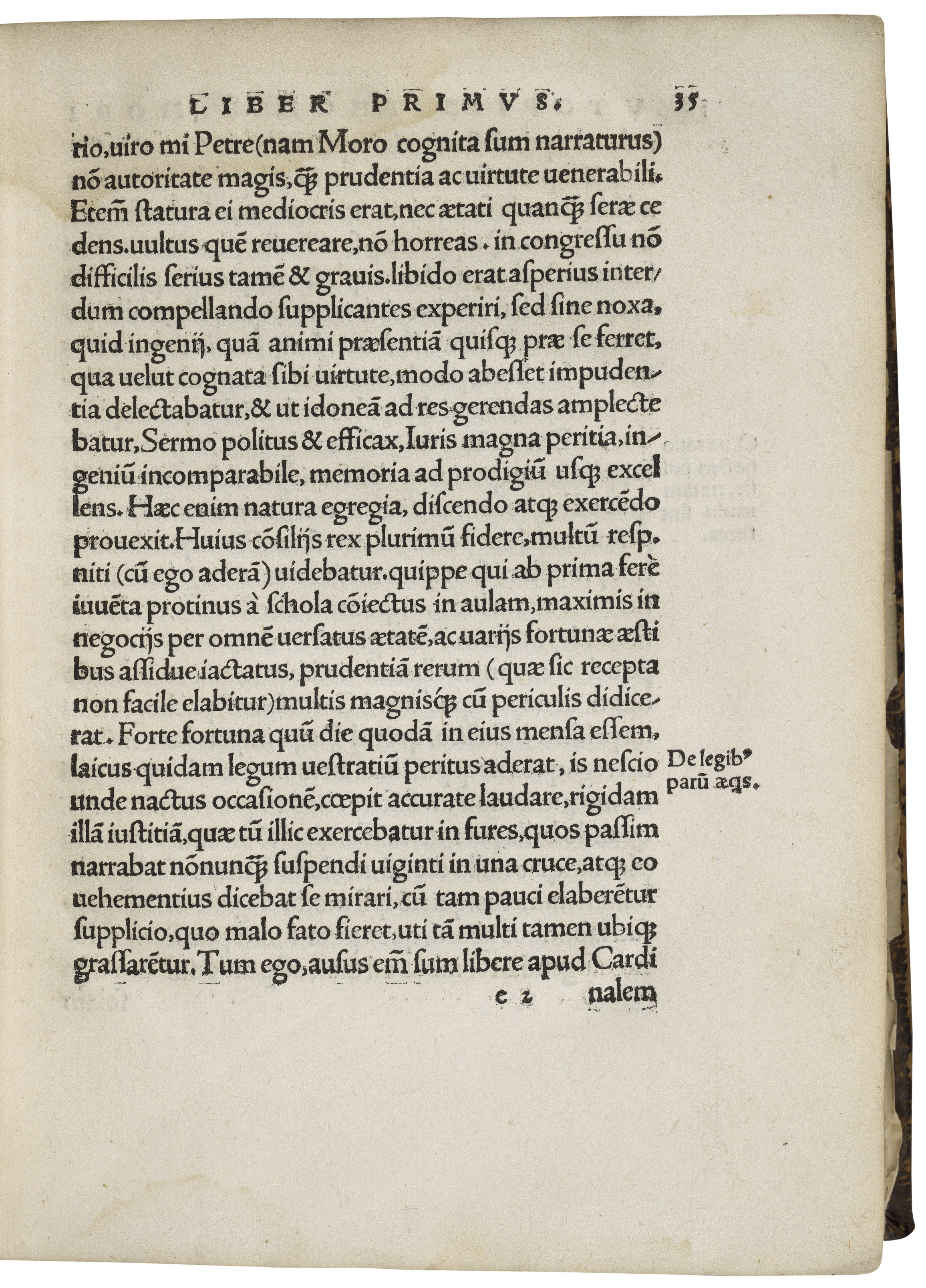 This the page 35 of Thomas More's Utopia (november 1518)